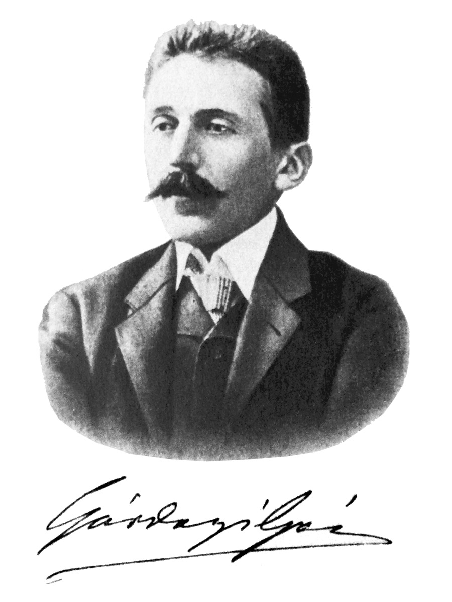 Géza Gárdonyi (1863-1922) Hungarian writer around 1900